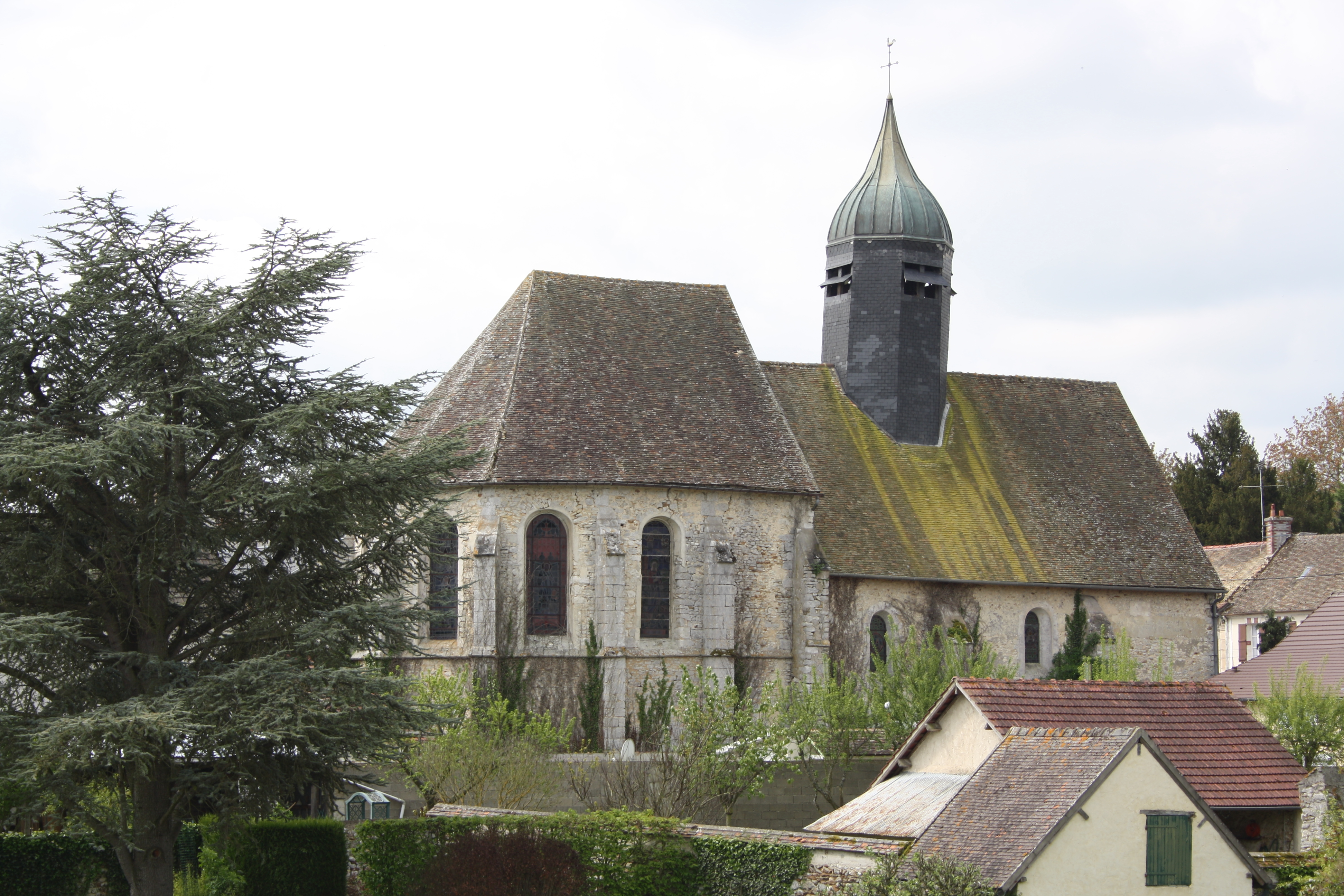 Church of Gilles (Eure-et-Loir, France)